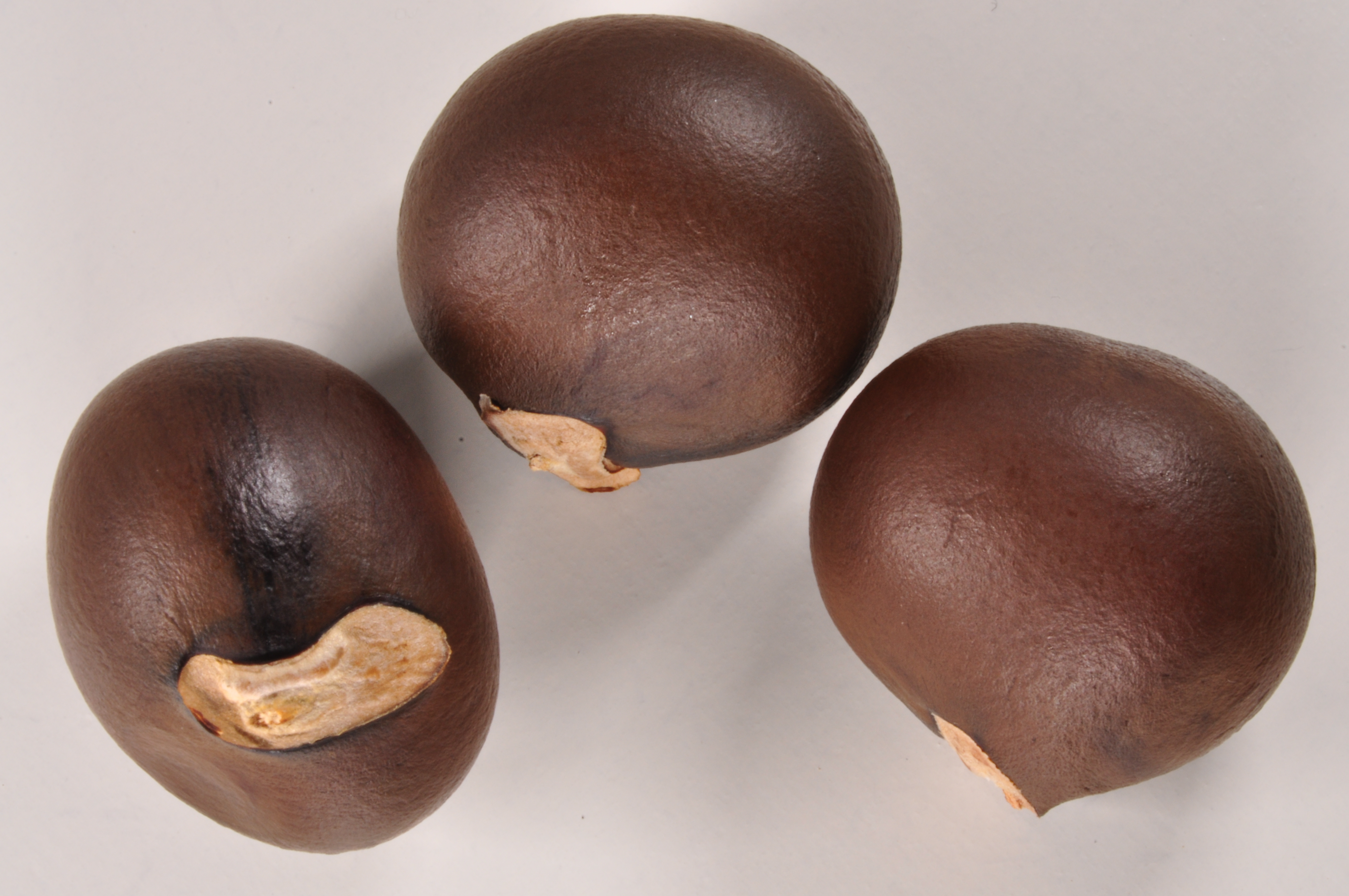 Yellowhorn. Botanischer Garten Bern, Switzerland.